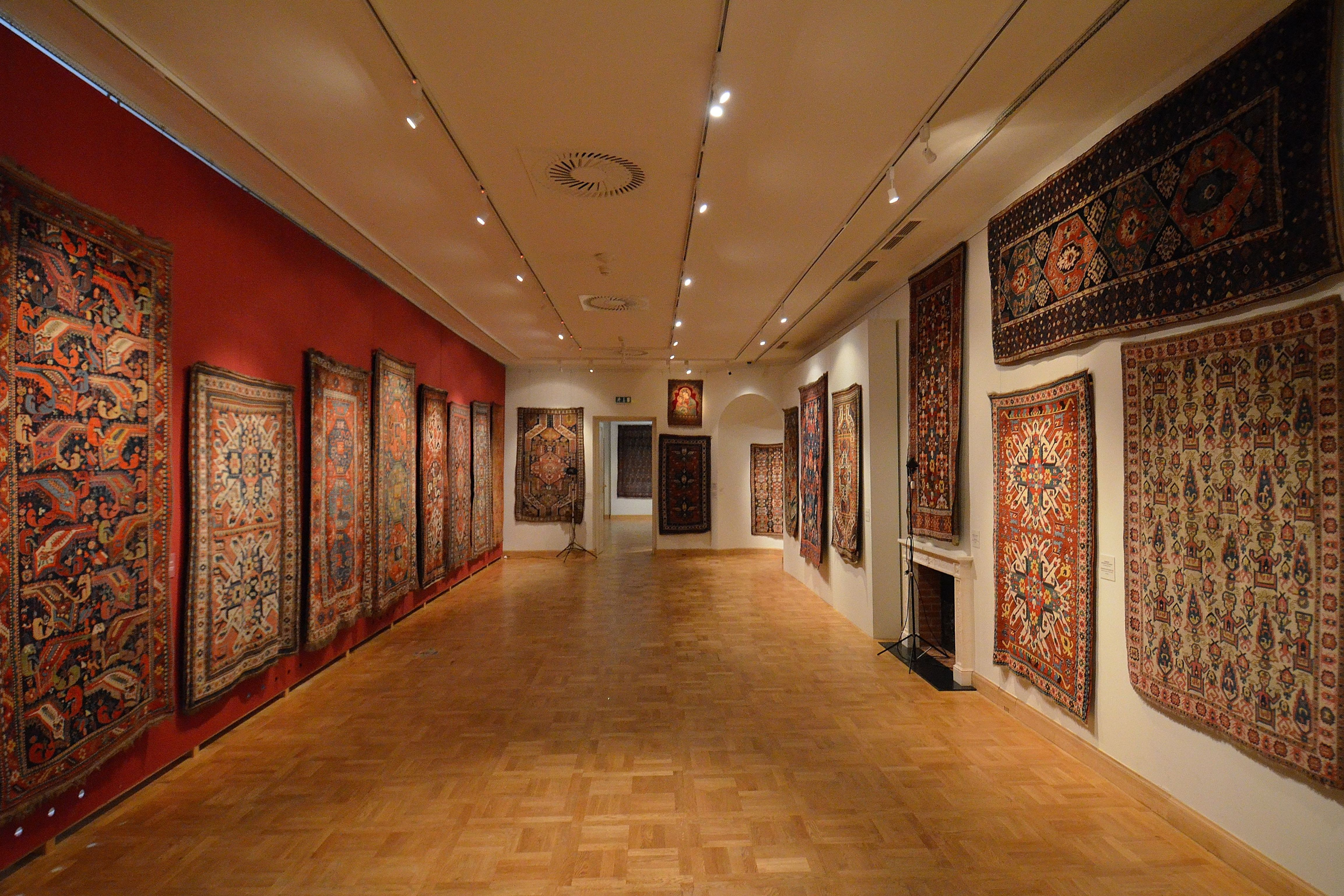 Exhibition of Oriental Rugs in the Tin-Roofed Palace